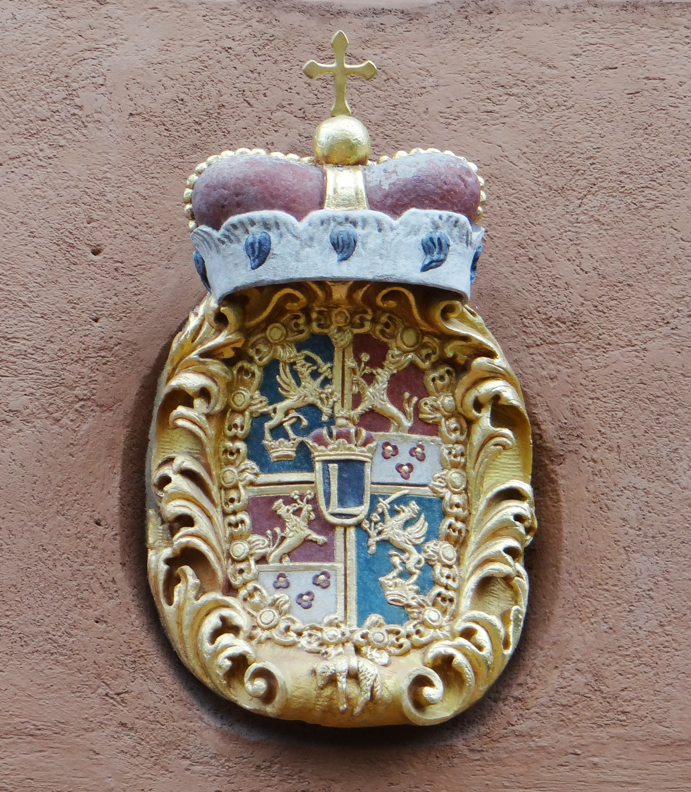 Castle of Kőszeg, Coat of arms of Esterházy